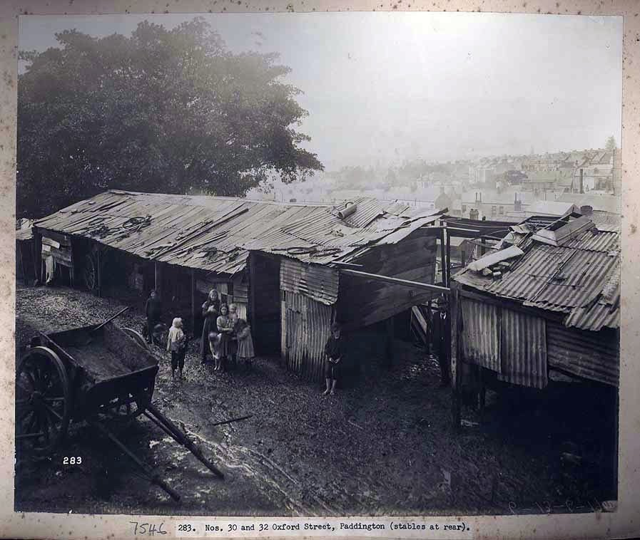 From a series of images showing the areas in Sydney affected by the outbreak of Bubonic Plague in 1900. Taken by Mr. John Degotardi, Jr., photographer from the Department of Public Works, the images depict the state of the houses and 'slum' buildings at the time of the outbreak and the cleansing and disinfecting operations which followed. Stables at the rear of No.30 - 32 Oxford Street, Sydney Dated: c. 17/07/1900 Digital ID: 12487_a021_a021000014 Rights: We'd love to hear from you if you use our photos. Many other photos in our collection are available to view and browse on our website using Photo Investigator.